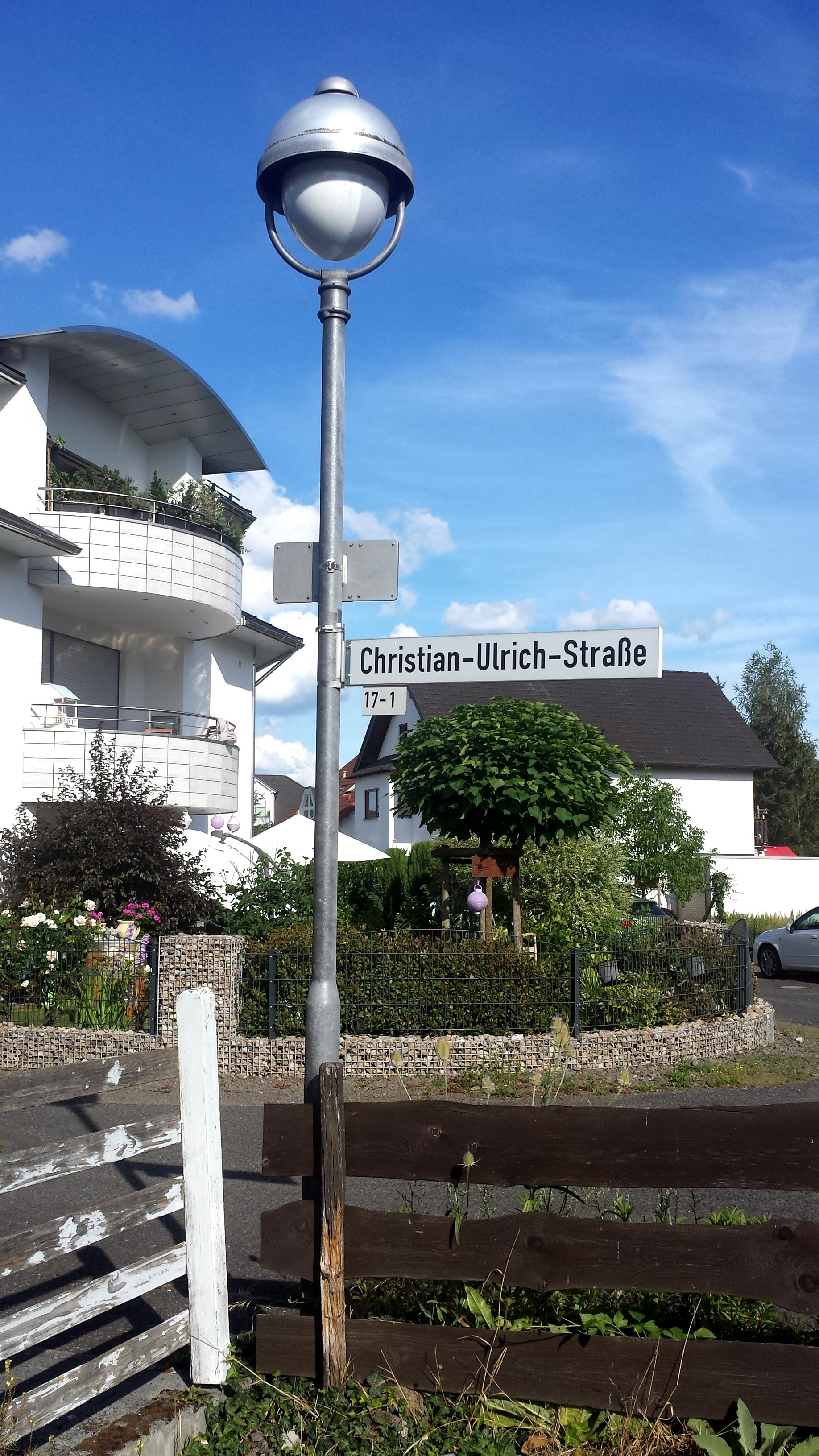 Christian-Ulrich-Straße in Ahrweiler